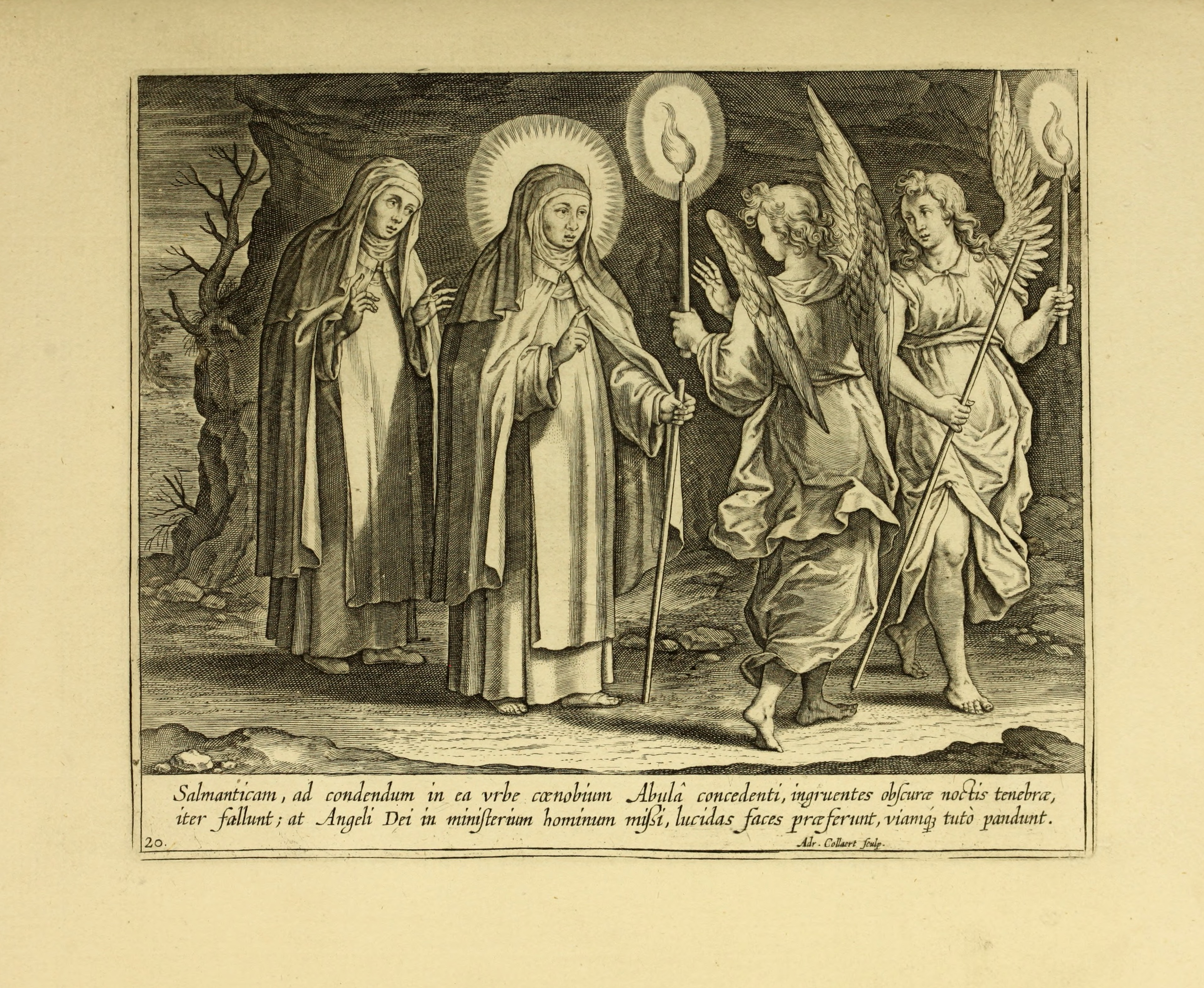 Internet Archive: Originally published in 1613?